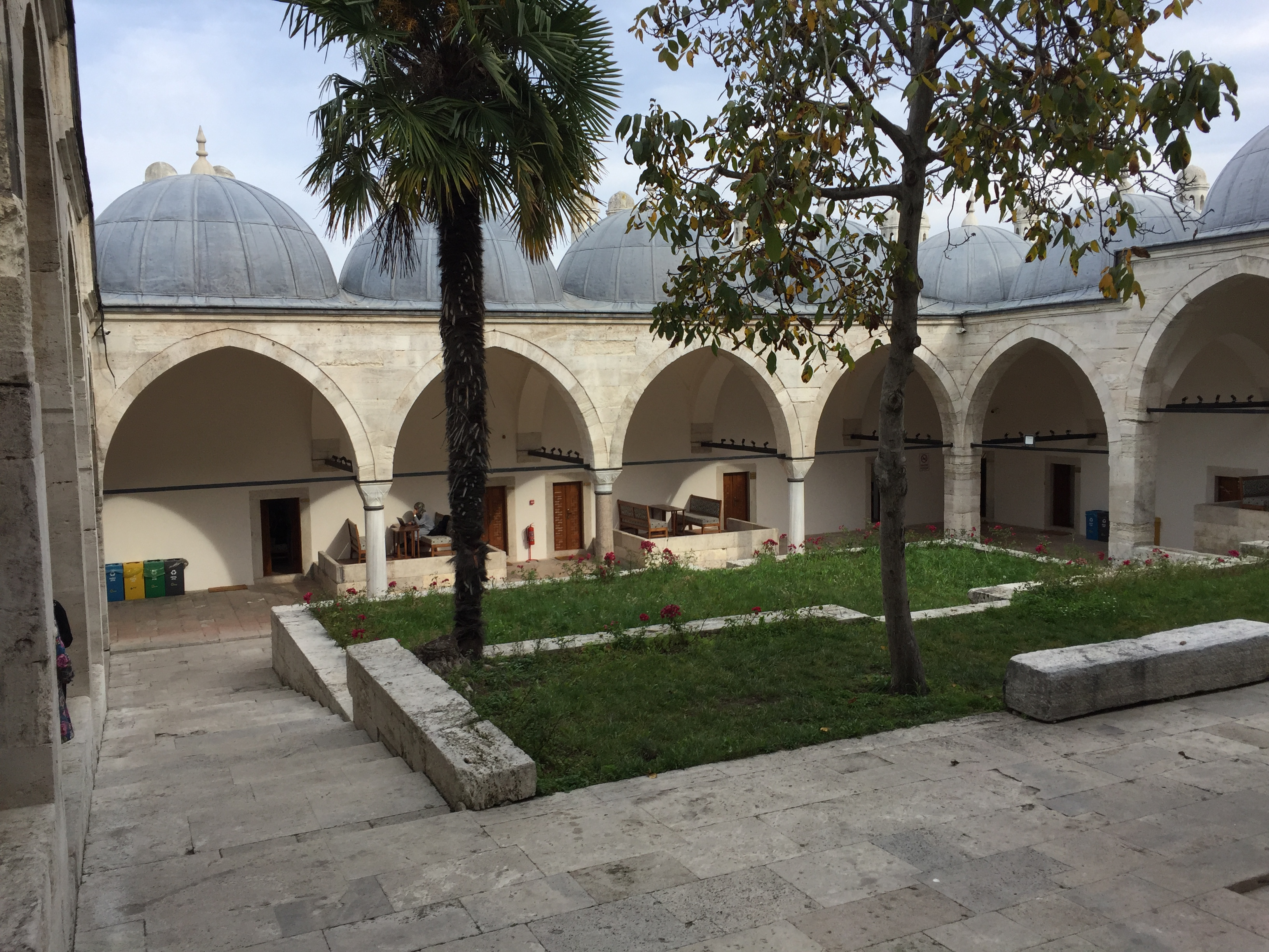 The photo has been taken in November 2019